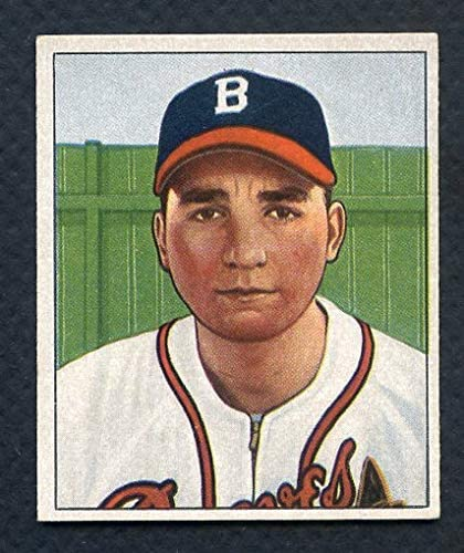 Card #74 of Johnny Antonelli with the Boston Braves from the 1950 Bowman set.